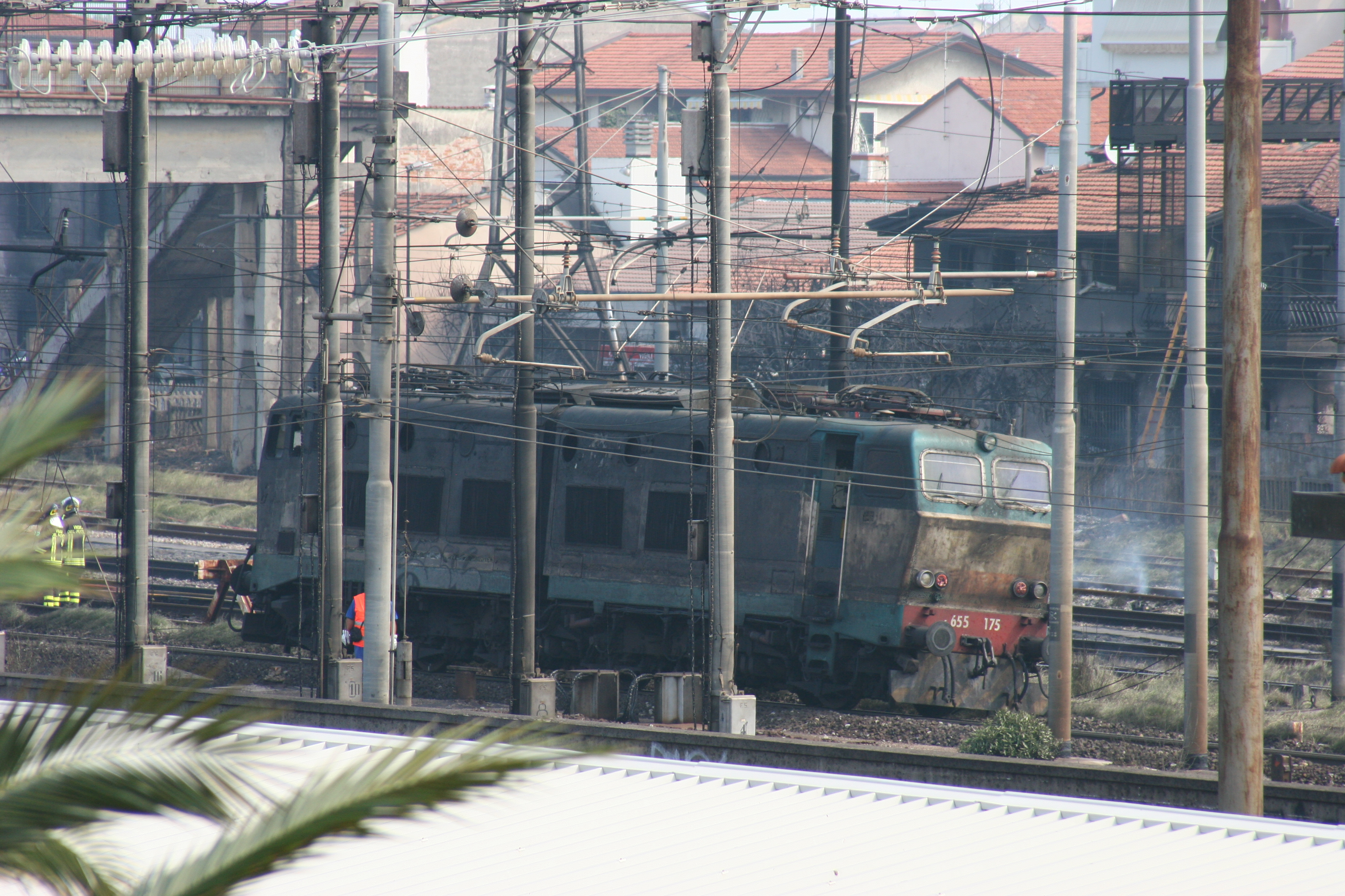 The E.655.175 locomotive involved in Viareggio train derailment on July 29th, 2009.